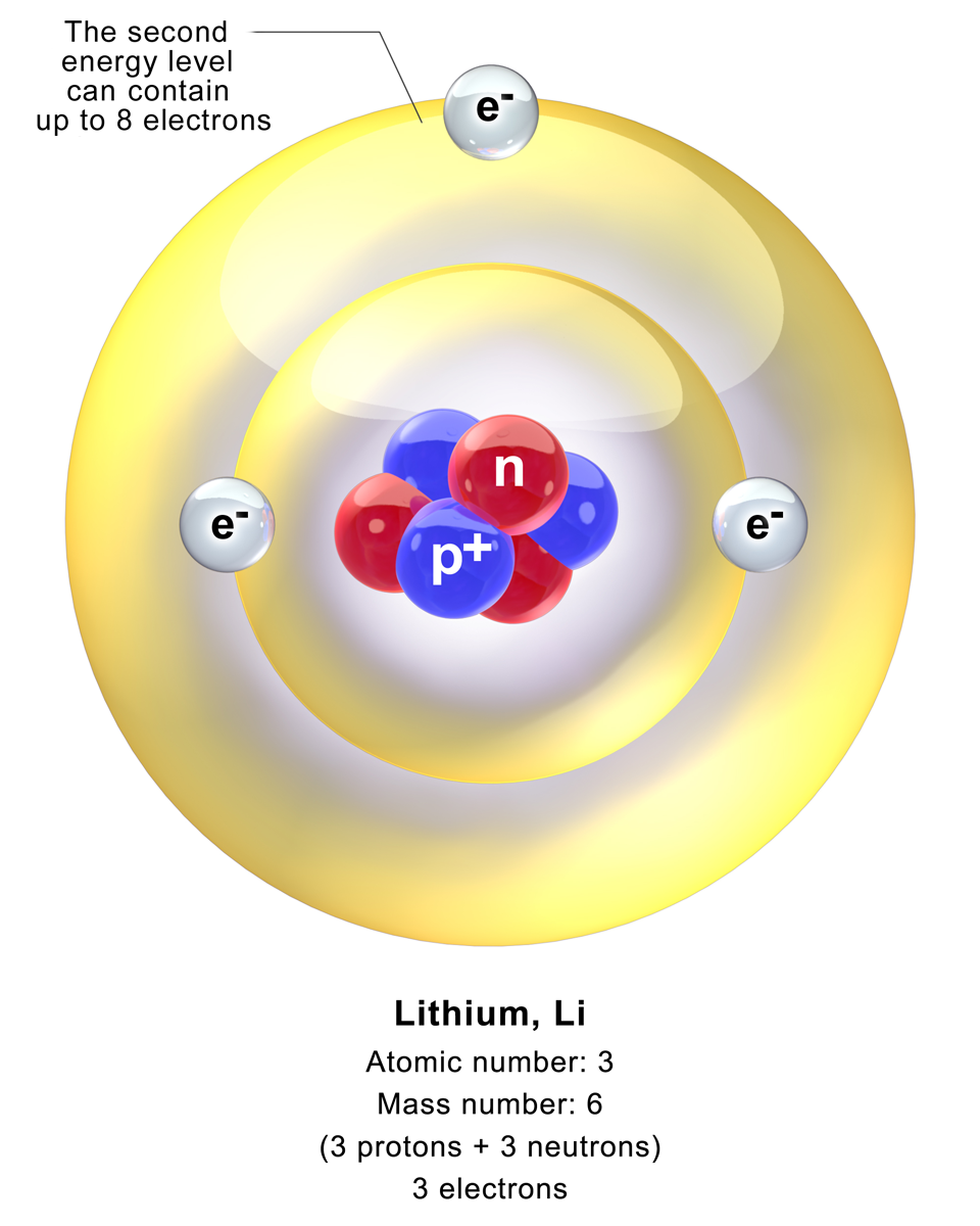 Lithium Atom.[1]